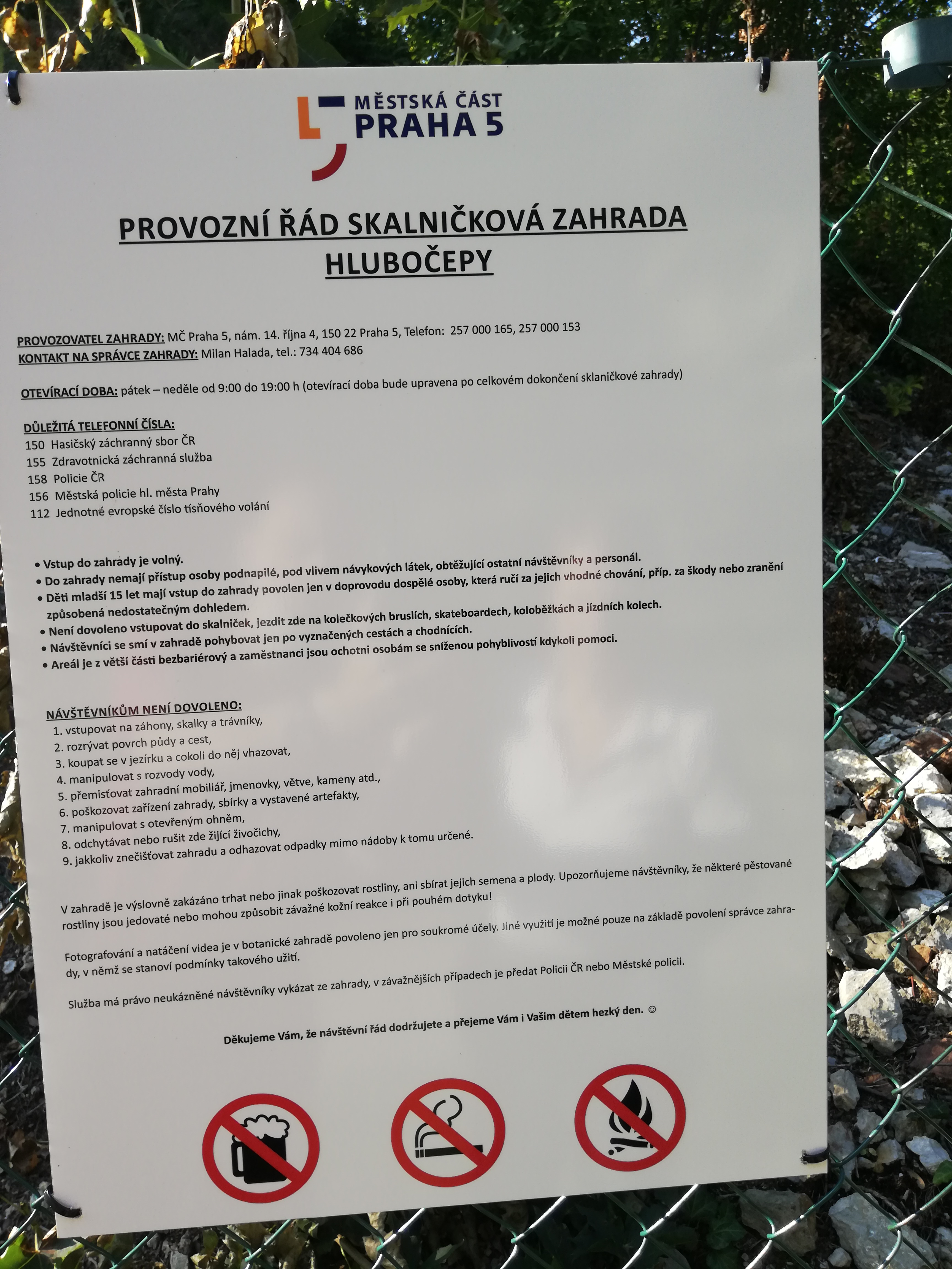 The Rock Garden in Hlubočepy (Prague, Czech republic) is a unique publicly accessible botanical garden with more than 2,000 rock gardens, alpines plants and other woody plants. It was founded in the 1950s by the members of family Halada on the site of a former limestone quarry on the edge of the Prokop Valley, is continuously maintained by their son Milan Halada and in 2019 was revitalized with the financial support of the Prague 5 City District.